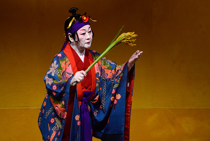 Performance at the Japanese Cultural Institut Cologne Kumi Odori